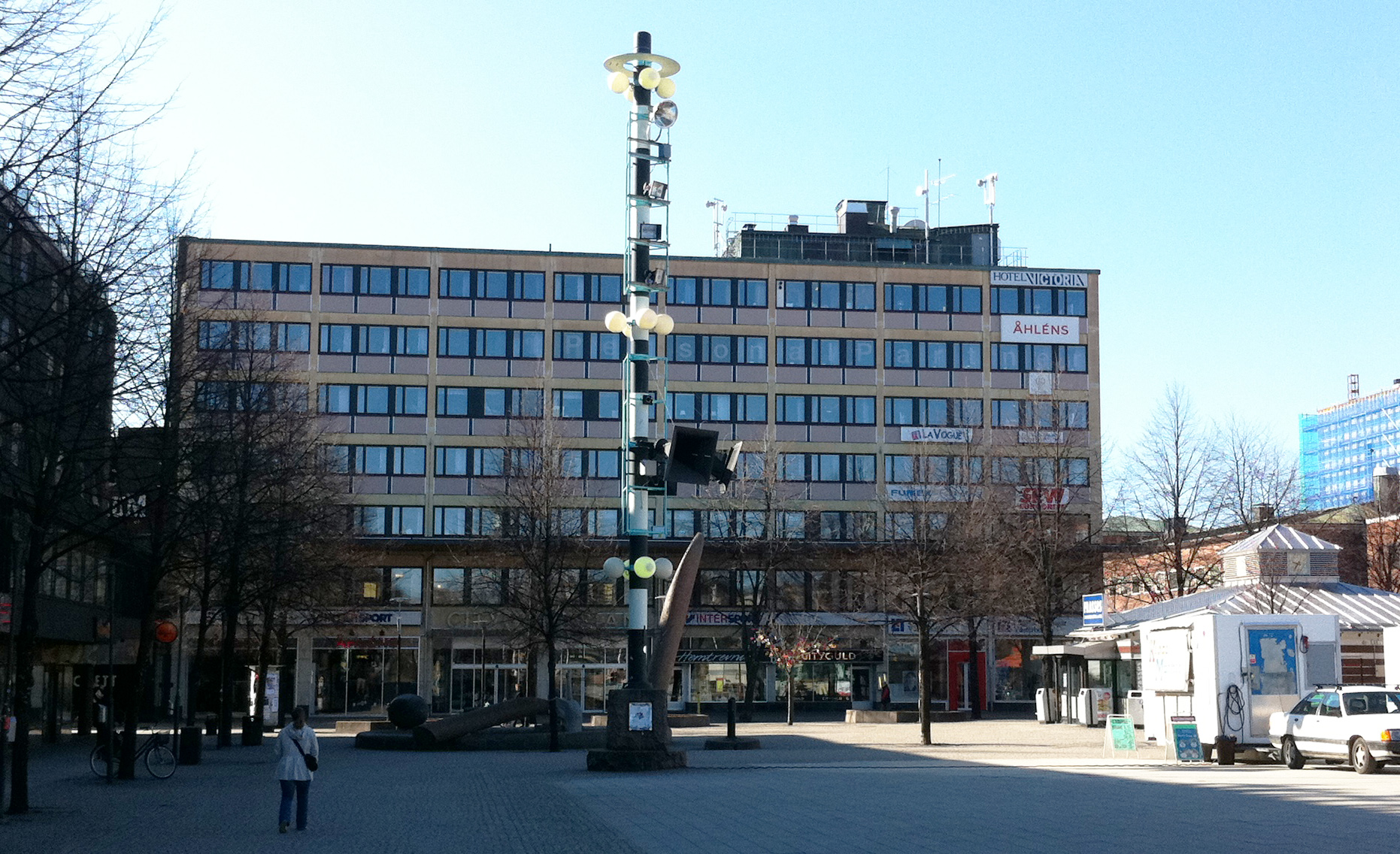 Riks-City. First "highrise building" in Skellefteå.